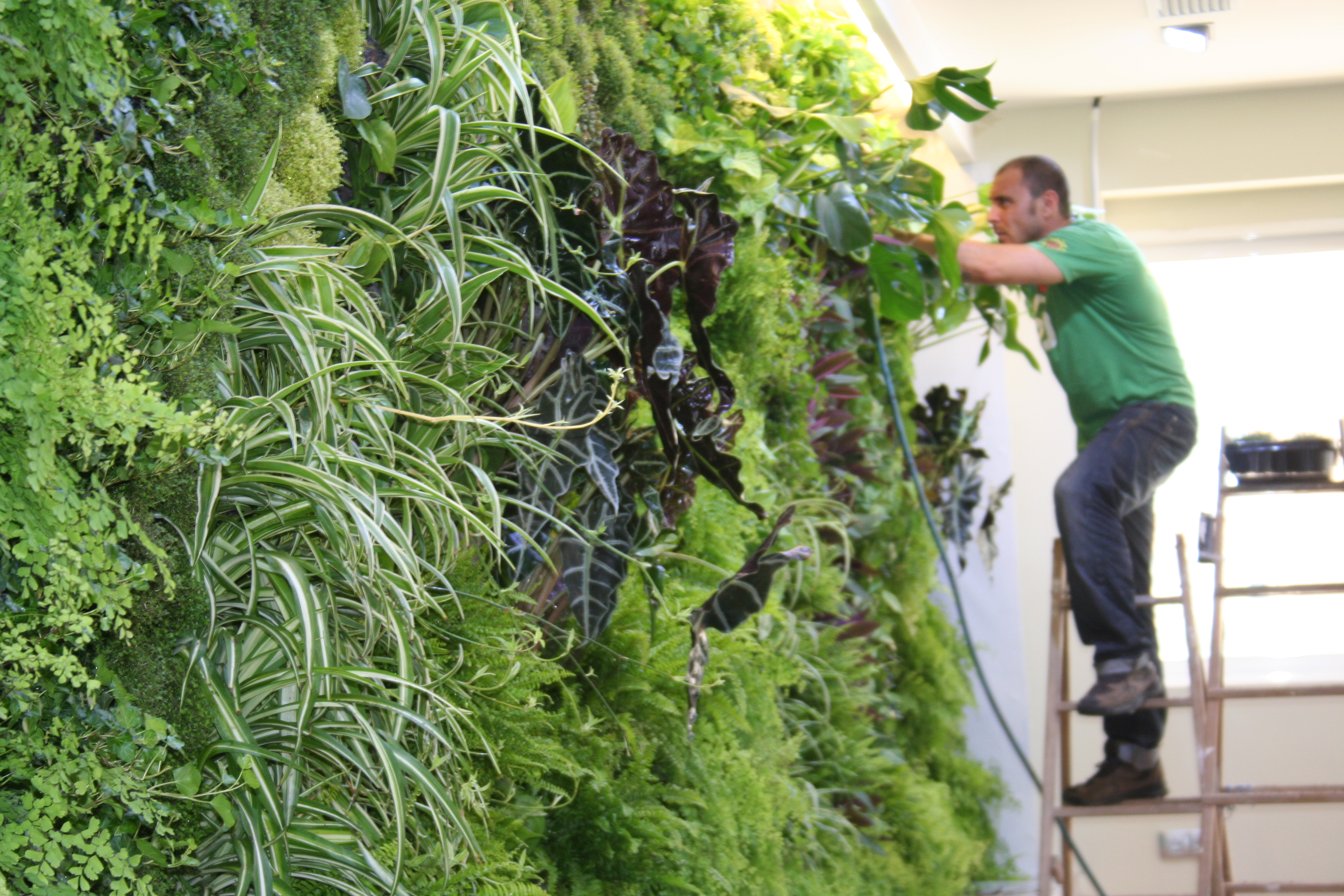 Ignacio Solano installing a vertical garden in Spain